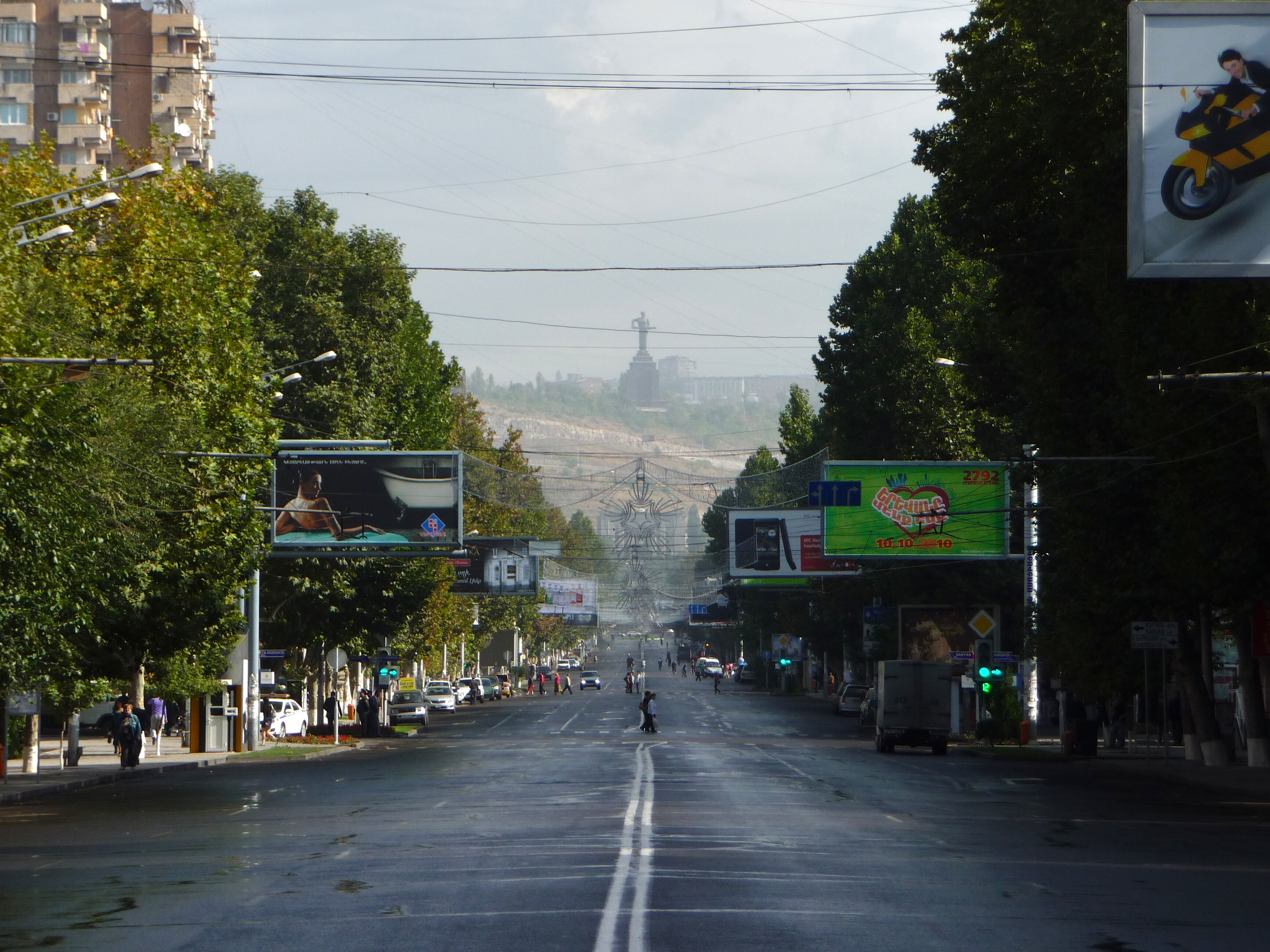 The Mesrop Mashtots Street (Yerevan, Armenia).